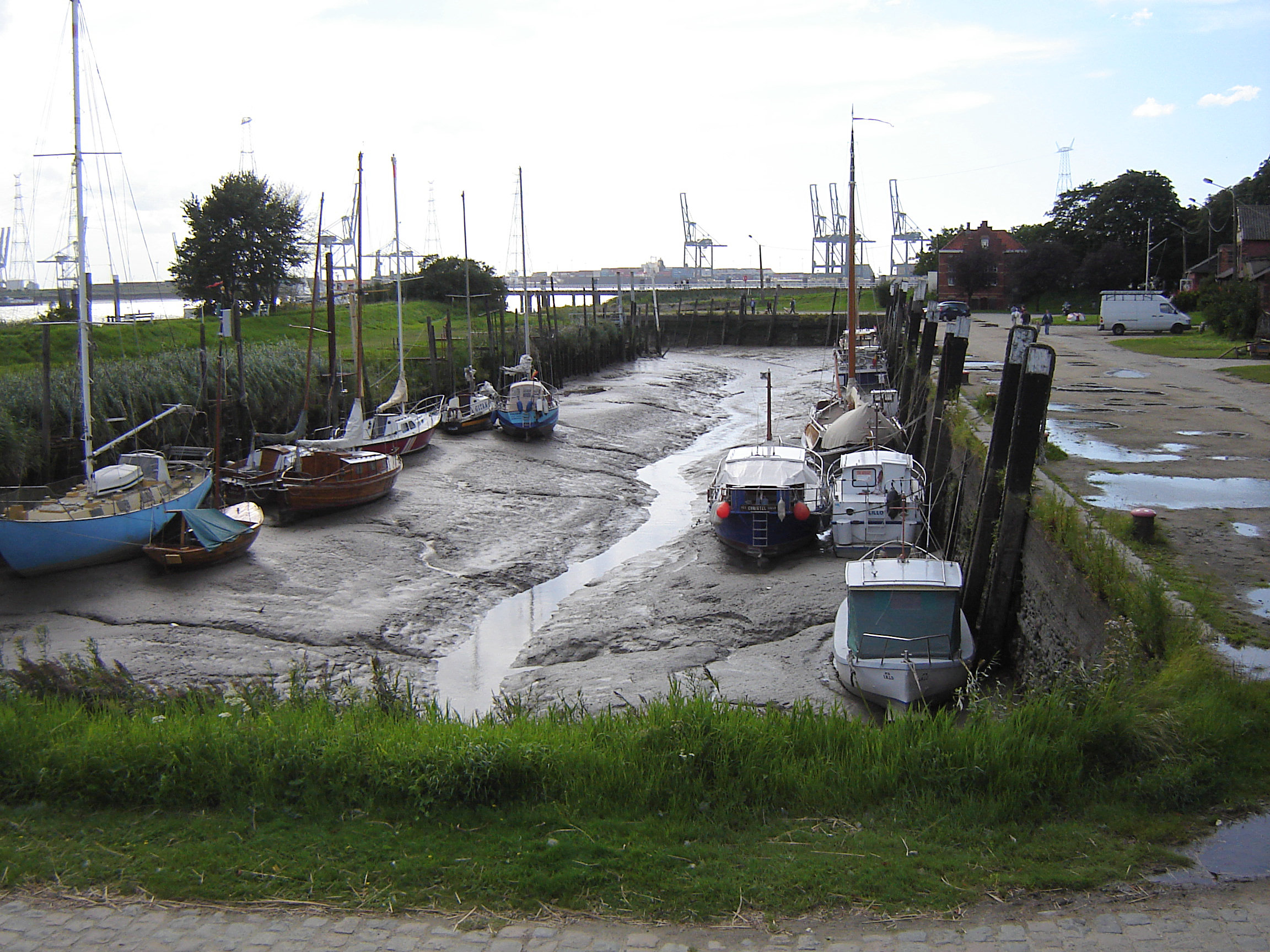 Tidal harbour of Lillo at low tide. Lillo, Antwerp, province of Antwerp, Belgium